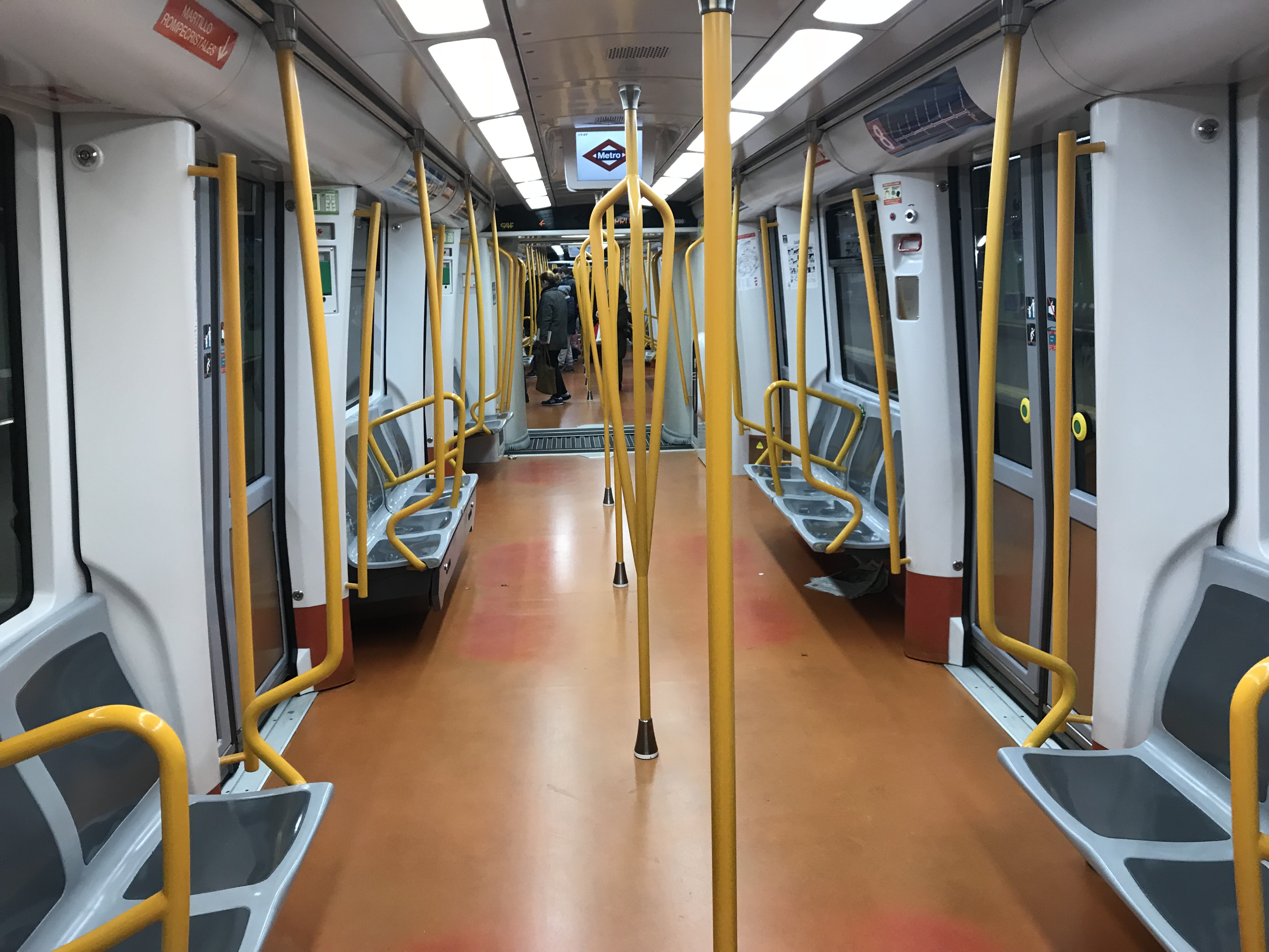 201803 Train Interior of Madrid Metro Line 11. Taken on my way back from the FAKE SFO...L11 somehow looks like Beijing Subway Line 16